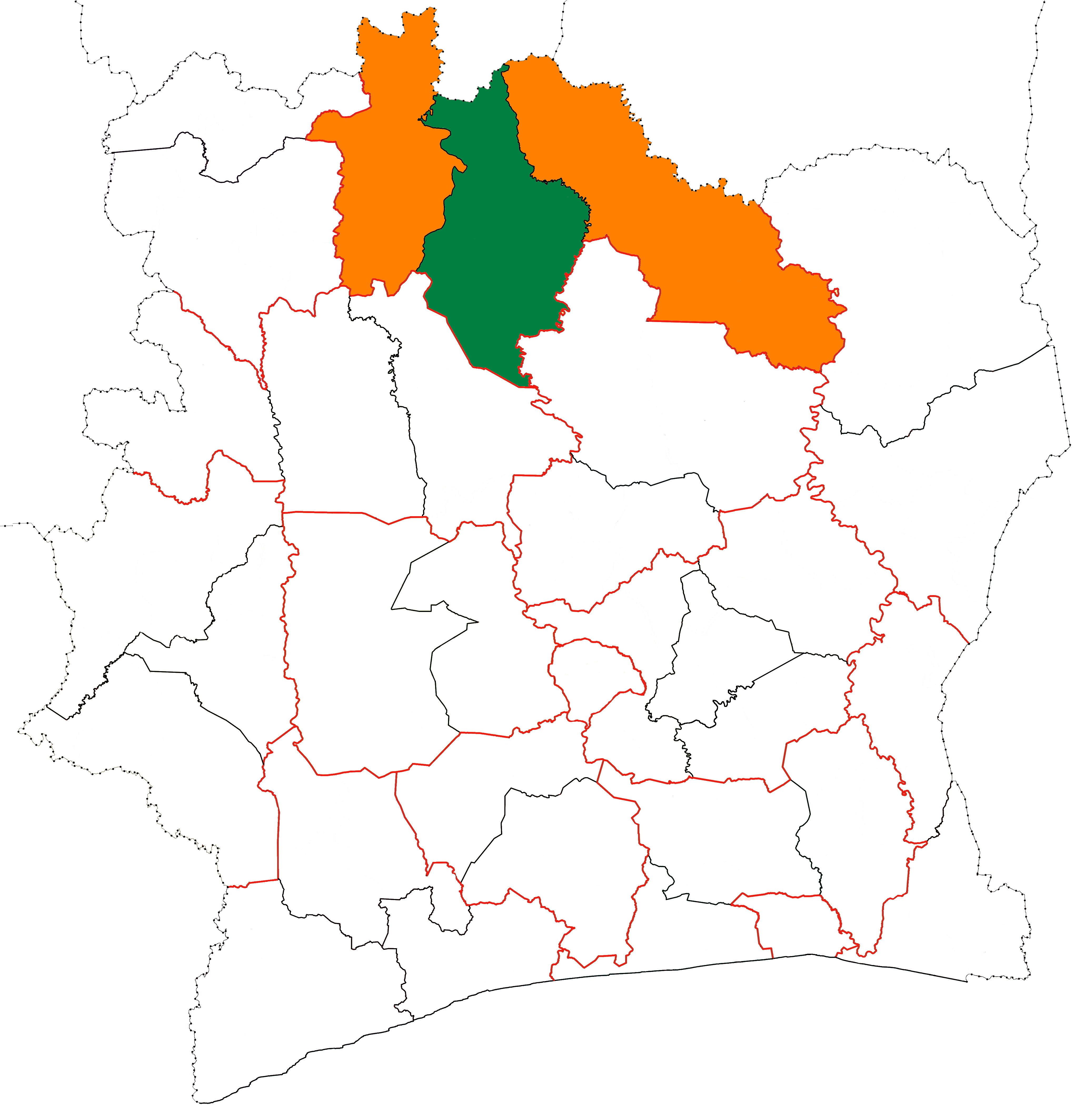 The location of Poro region (green) in Côte d'Ivoire. The other shaded areas represent the other parts of Savanes District.